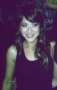 Spanish singer Mai Meneses (image has been cropped)